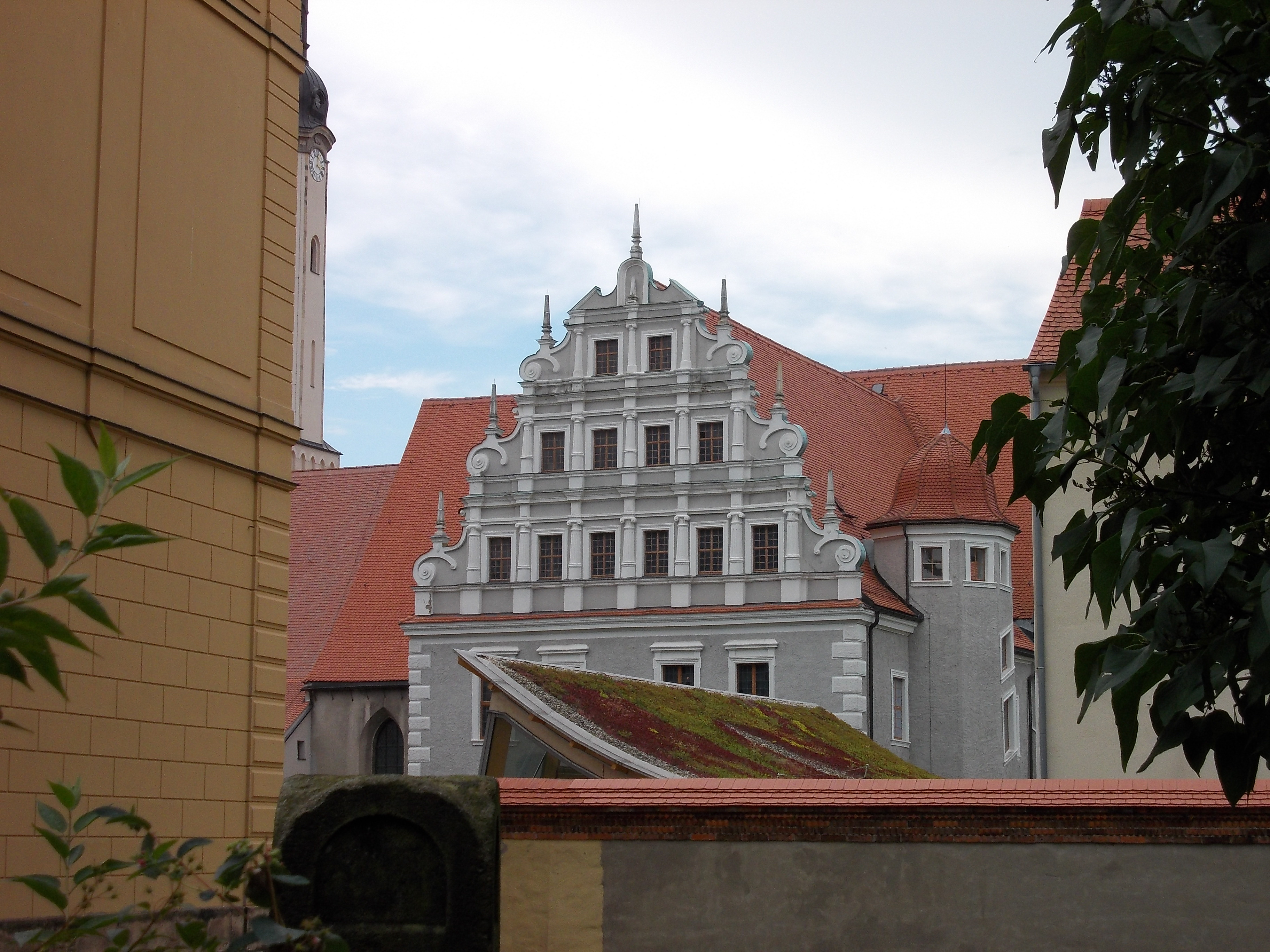 Gable of the Heffter Building in Zittau (Görlitz district, Saxony)